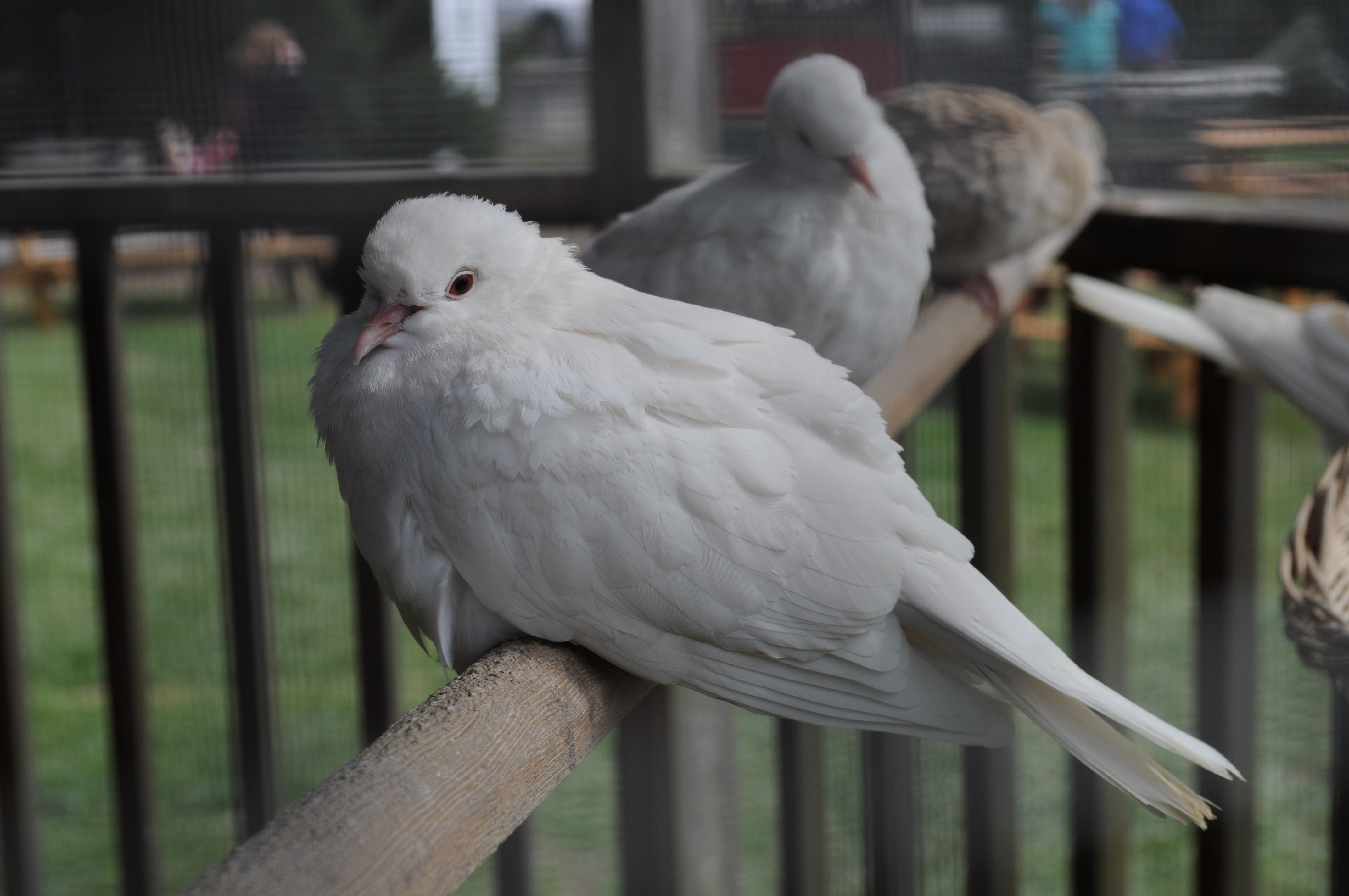 Barbary Dove, photographed at Country Village, Bothell, Washington.